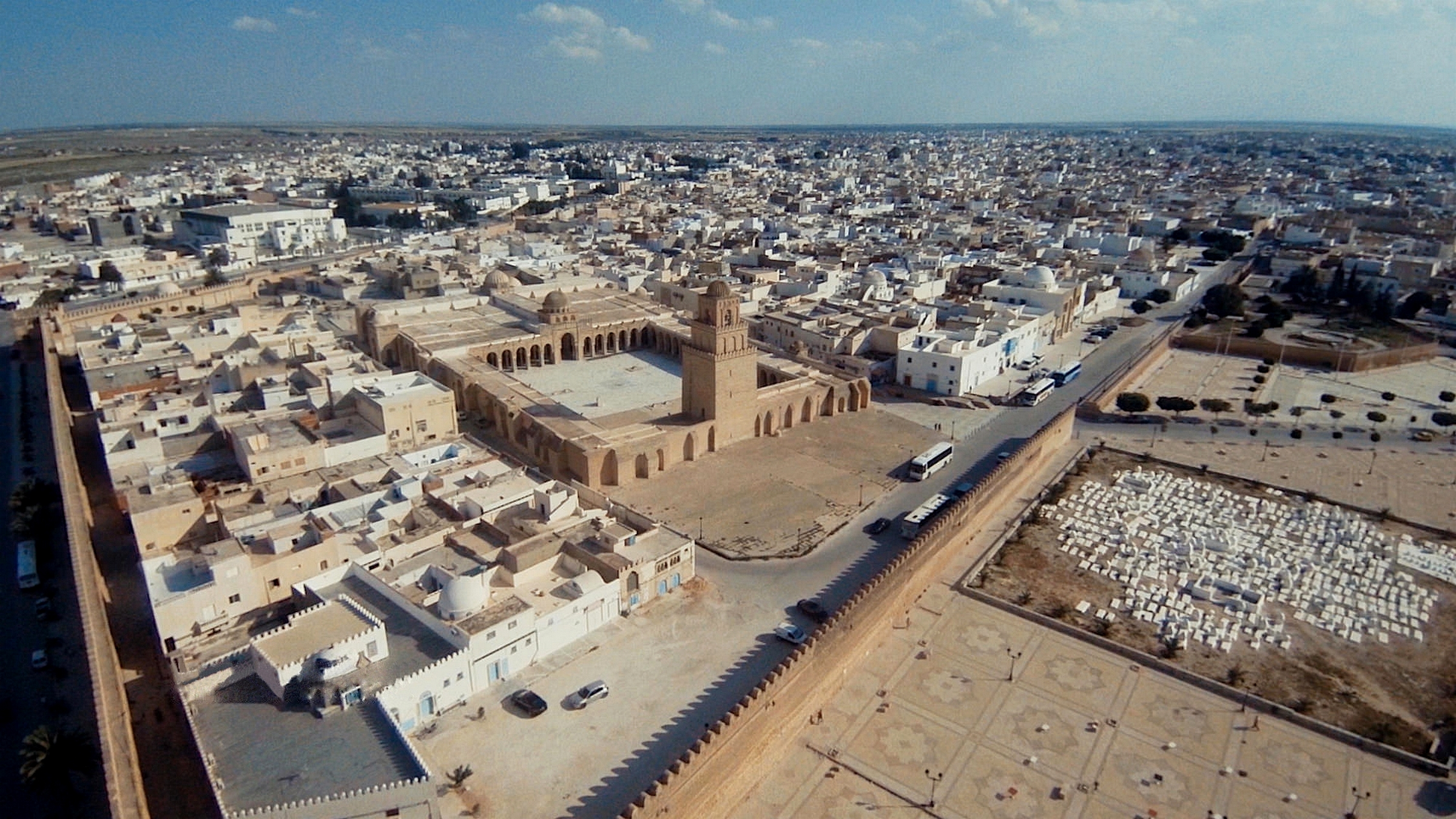 Rare arial view of Kairouan Great Mosque or Mosque of Uqba in Tunisia.